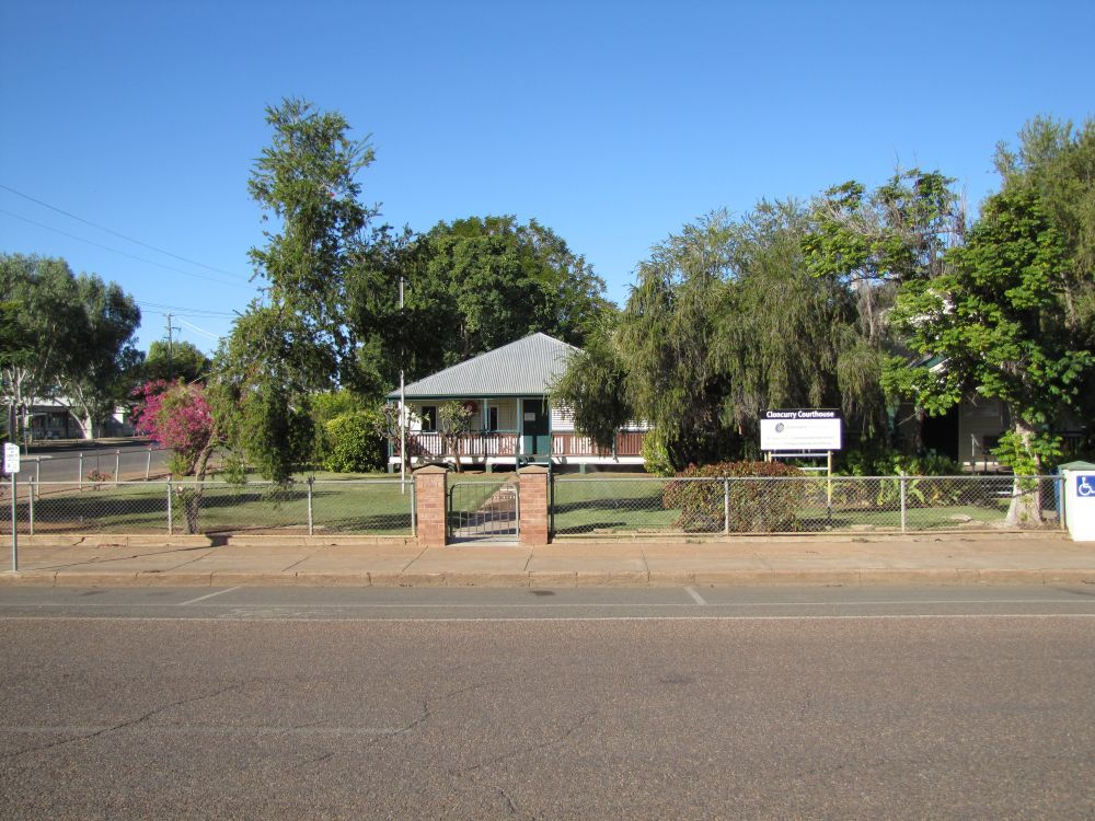 Cloncurry Court House (2013) - front view